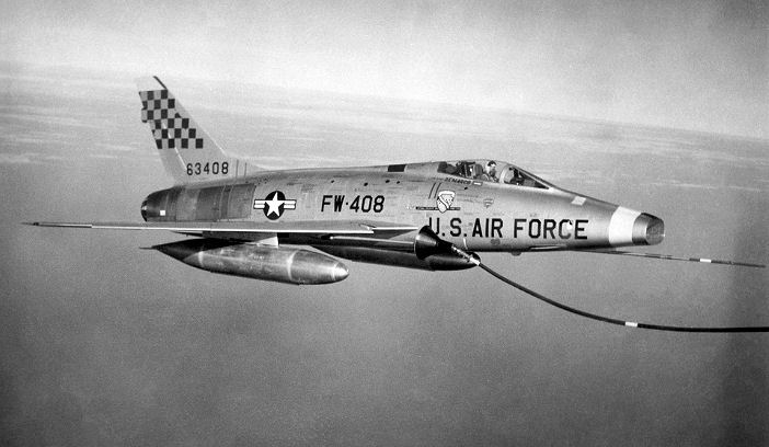 North American F-100D-85-NH Super Sabre 56-3408 401 TFW 614 TFS abt 1960